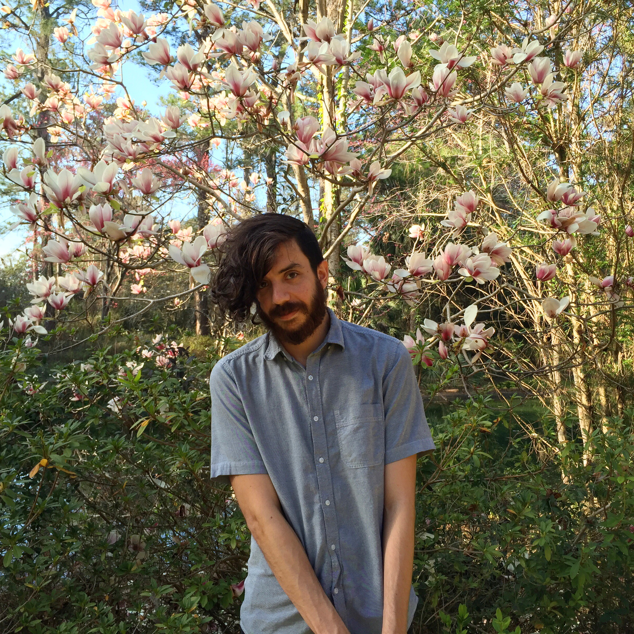 Poet Kaveh Akbar